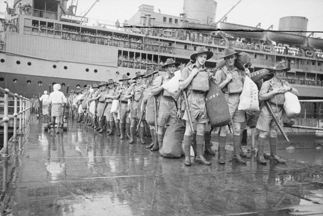 Australian troops arriving in Singapore, August 1941